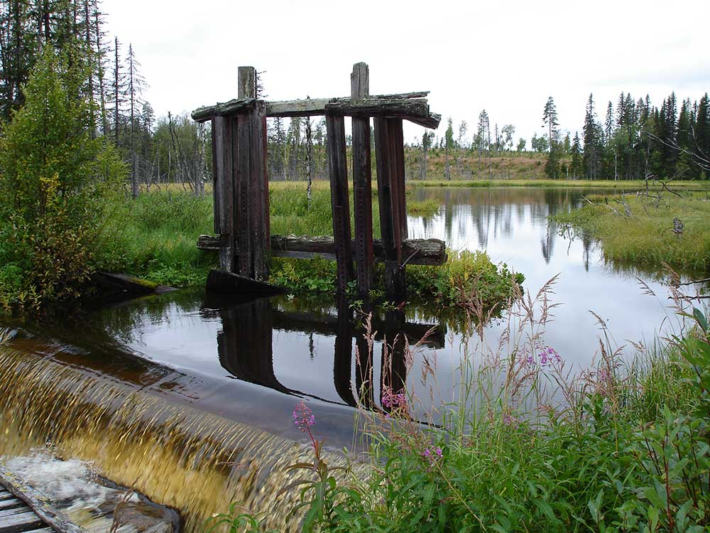 The outlet of Navarträsket in Swedish Lapland, with an old dam for timber floating.